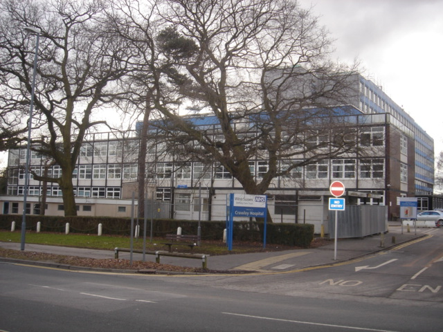 Crawley Hospital. An NHS hospital in the West Green neighbourhood of Crawley, West Sussex, England. Built between 1960 and 1962 on the site of an earlier, smaller hospital. View of main entrance from West Green Drive.